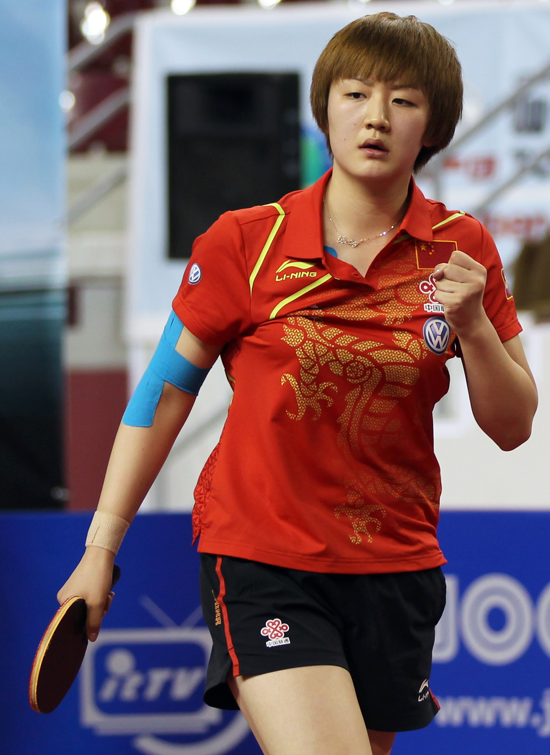 China's Chen Meng gestures during her Qatar Open women's table tennis final against South Korea's Jung Ha-Seok at the Qatar Women's Sport Committee Indoor Hall. Picture by Mohan